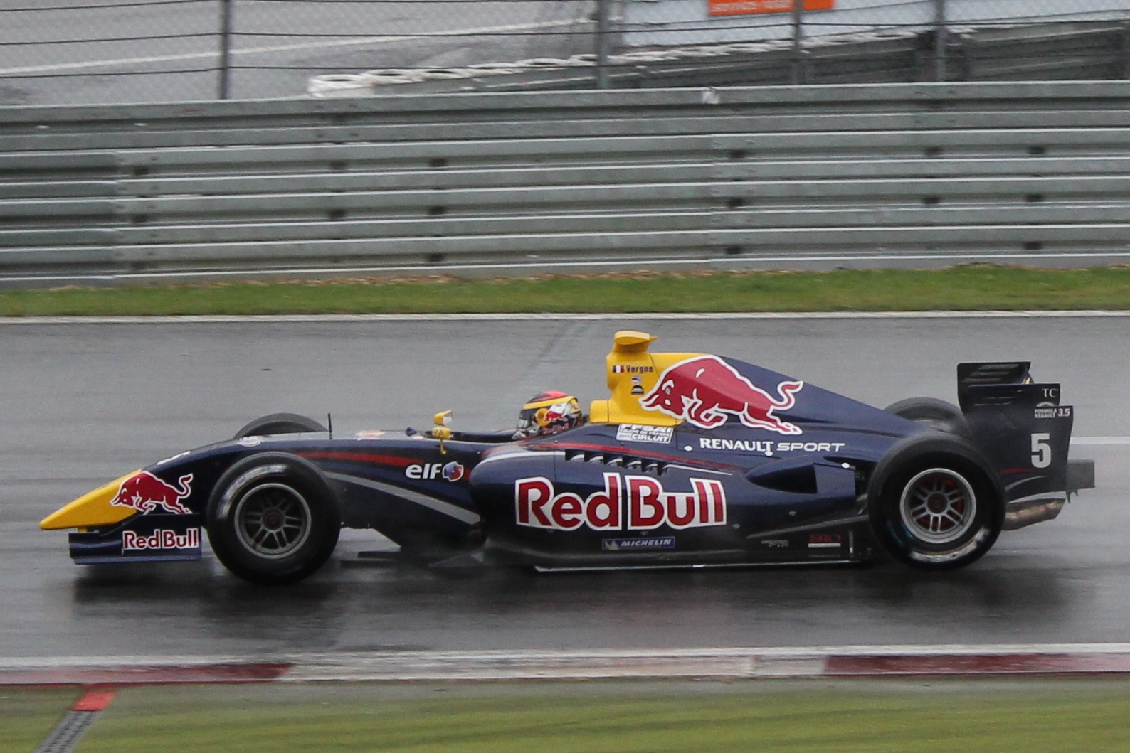 Jean-Eric Vergne at the 2011 Nürburgring World series by Renault round during the qualifying